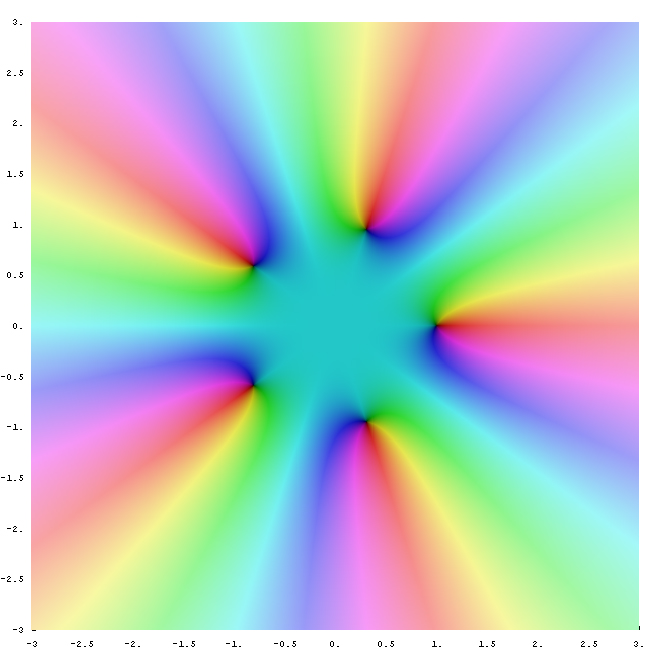 function z^5-1 in the complex plane